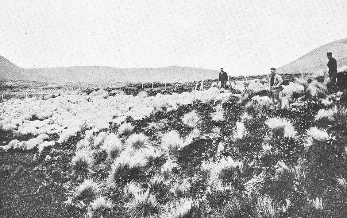 Sheep in Paddock (Campbell Island) with Poa litorosa nd Bulbinella Subject: Bluegrasses, Poa, Asphodelaceae Tag: Plants